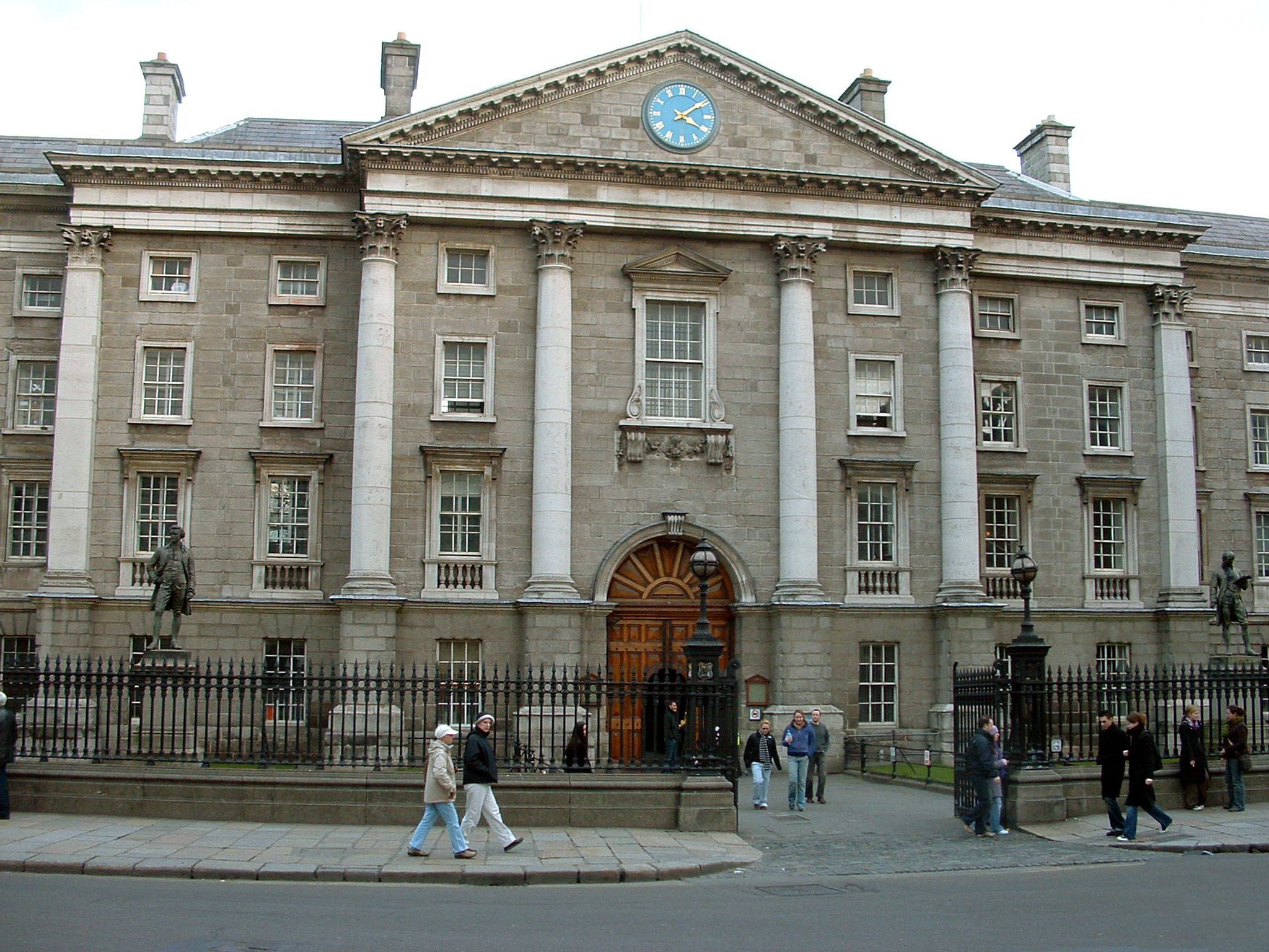 Front Gate, Trinity College, Dublin, Ireland